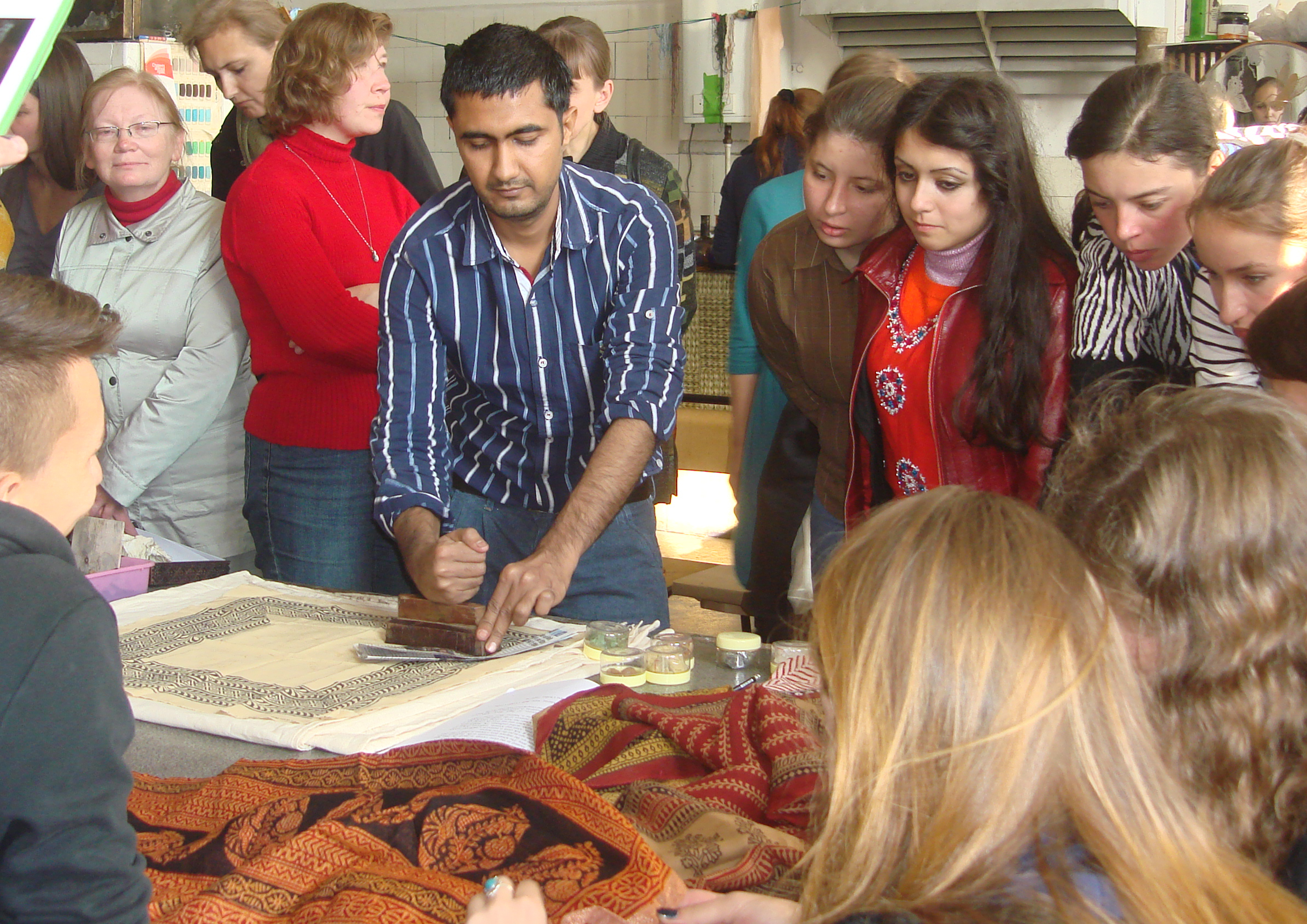 Mohammed Bilal Khatri Giving Bagh Print master classes to the students of Saint Petersburg State Academy of Art and Design University at Saint Petersburg, Russia 2014